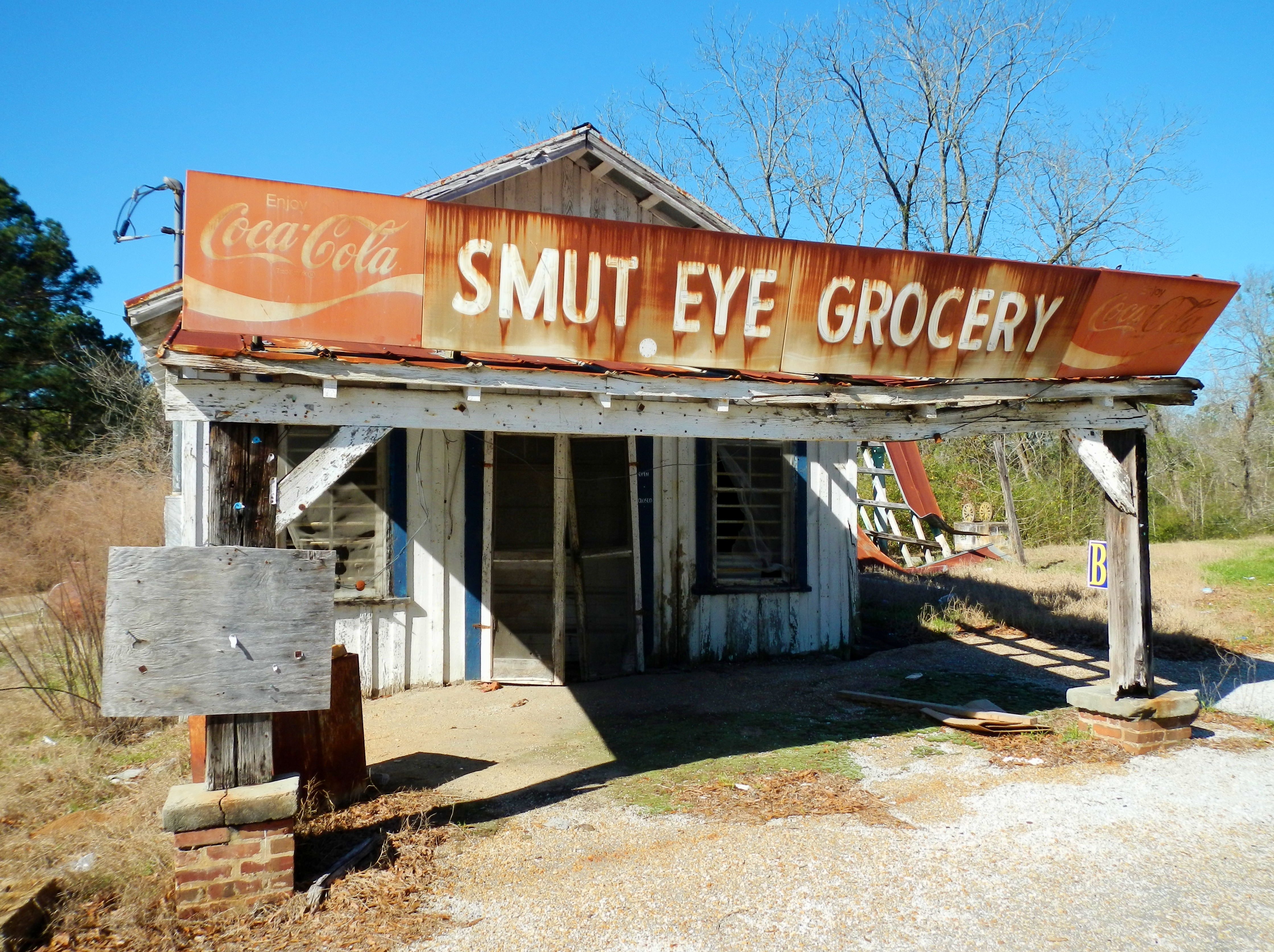 This is a photo of Smut Eye Grocery in Smuteye, Alabama.